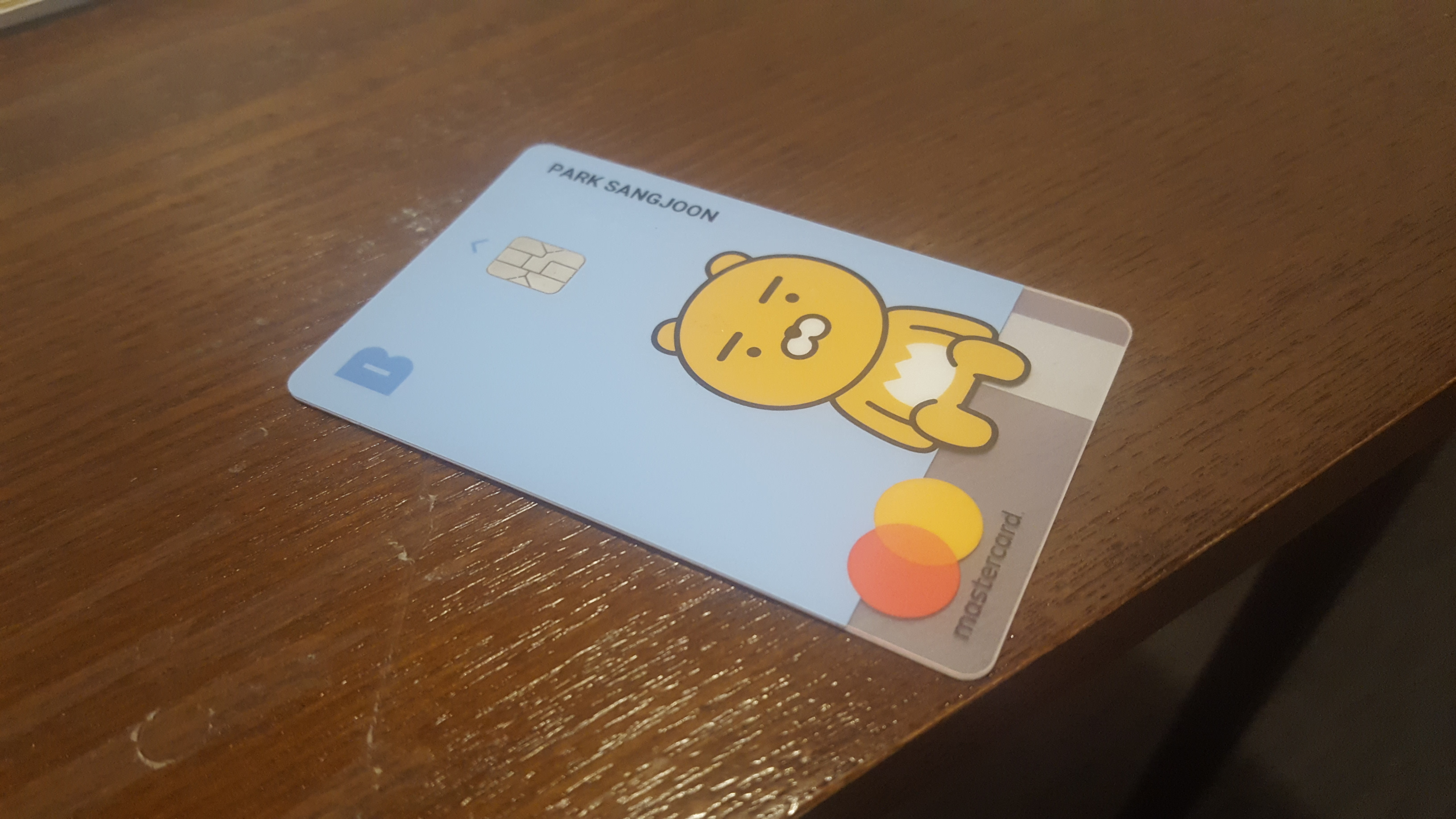 This is user`s Check card of KaKao bank. The user took a pictures directly.